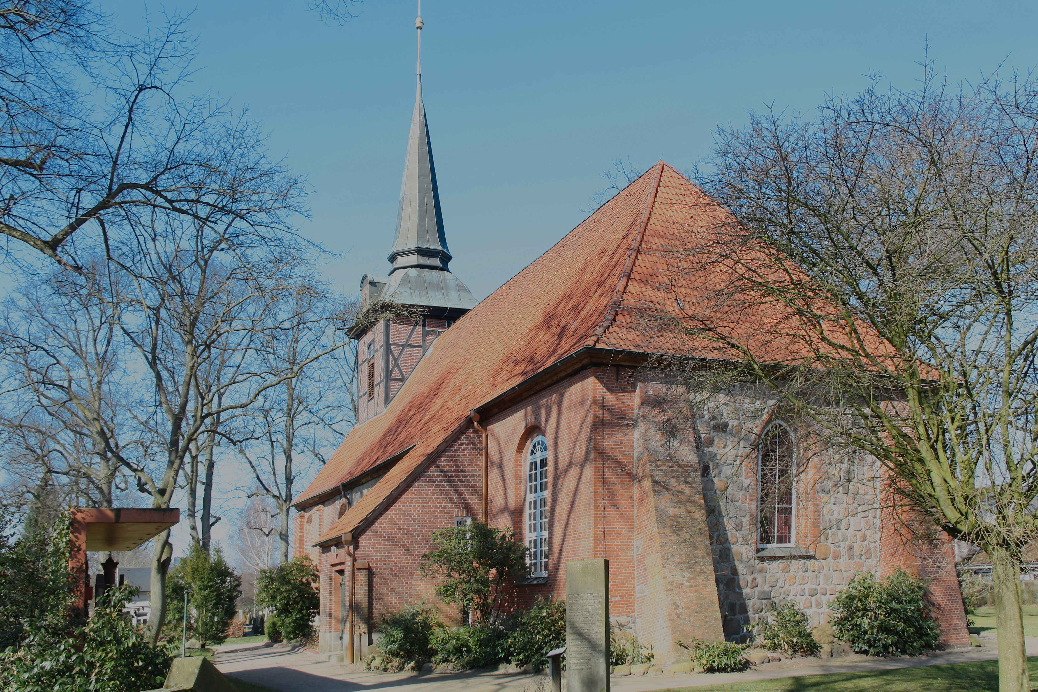 Church in Hamburg-Bergstedt, view from the east